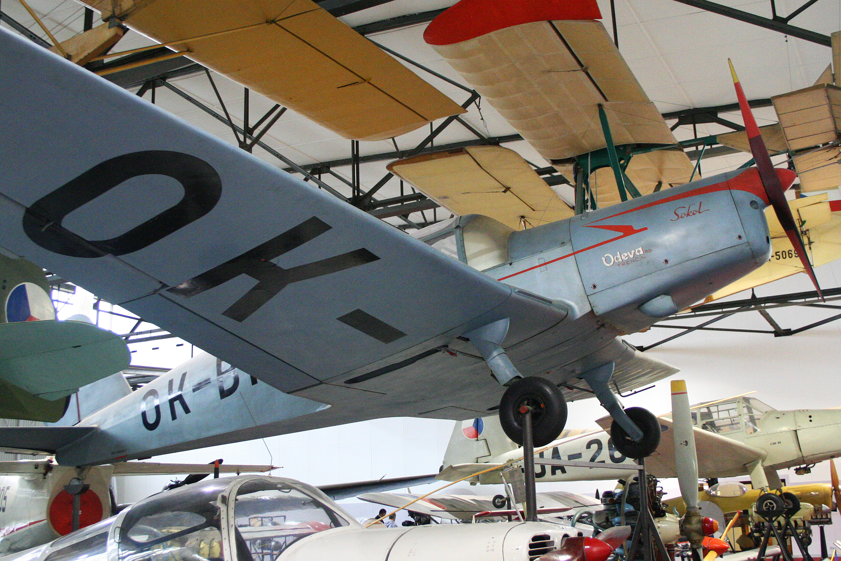 msn 127. On display in the Post War hangar, Kbely Museum, Czech Republic. 07-10-2012